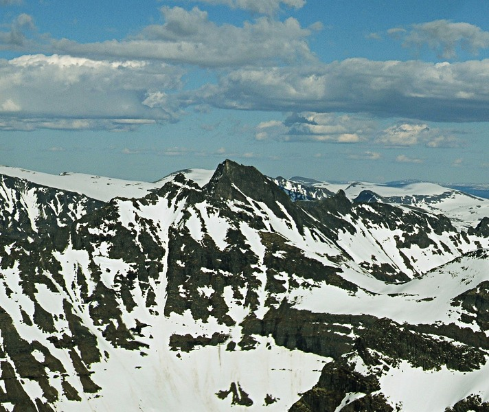 The mountain Trolla (elevation 1,850) in the center. Photo taken from Dronningkrona, elev. 1,806.